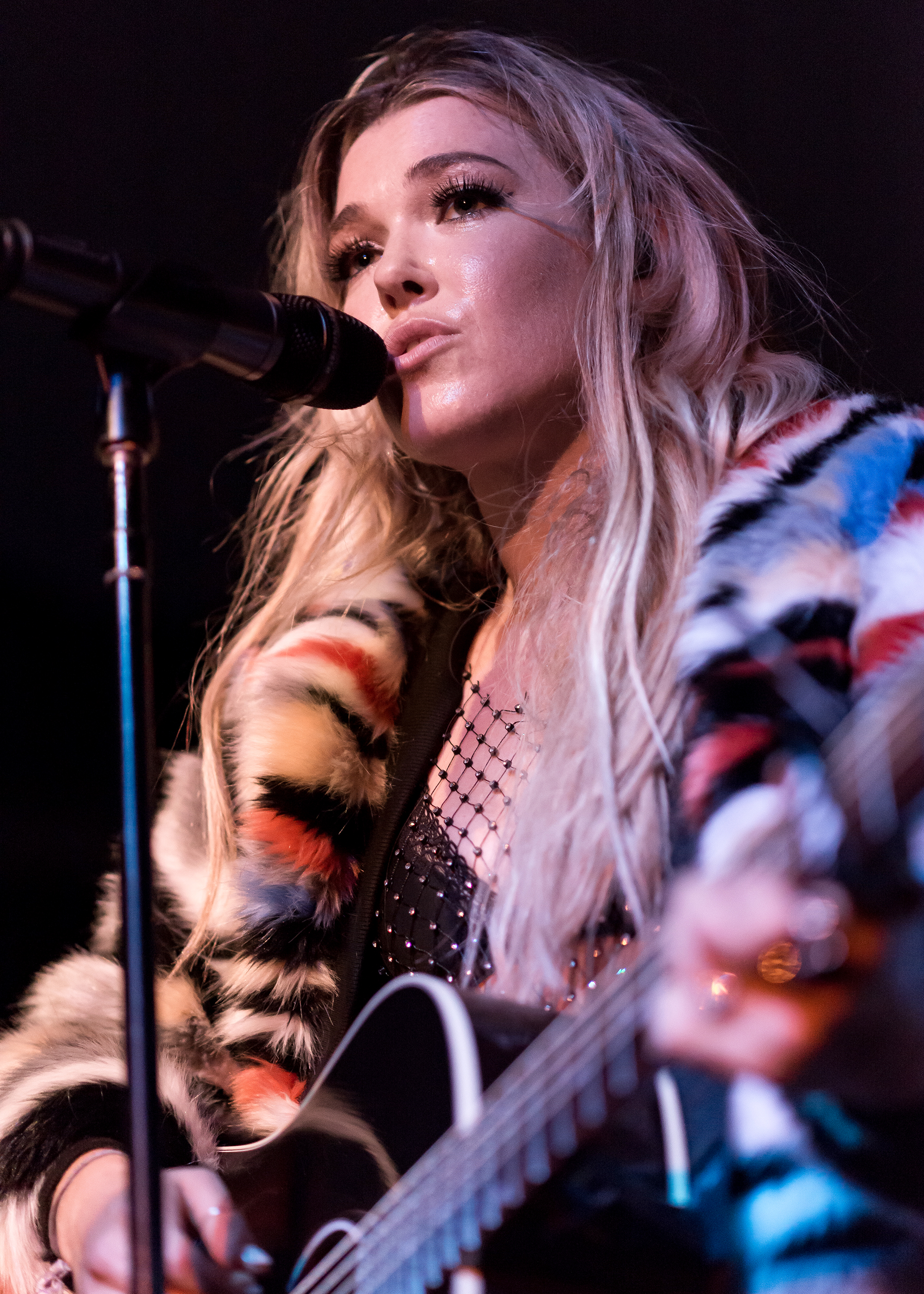 Rachel Platten performing live at the Peppermint Club in Los Angeles, California, on Thursday, November 16, 2017.